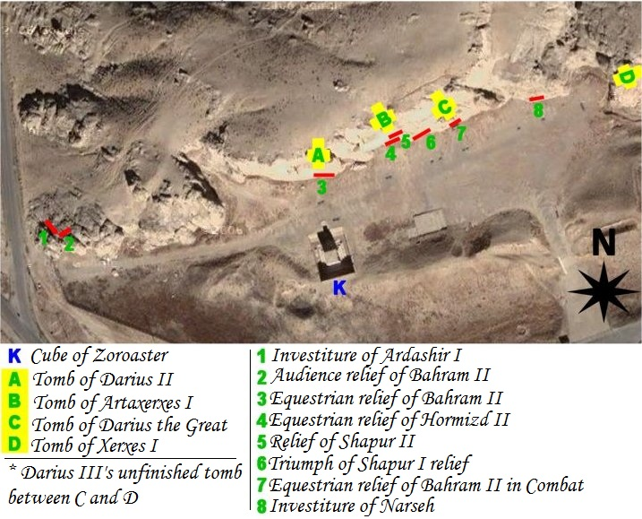 map of archeological site of Naqsh-e Rostam (Iran, fars Province, city of Marvdasht)